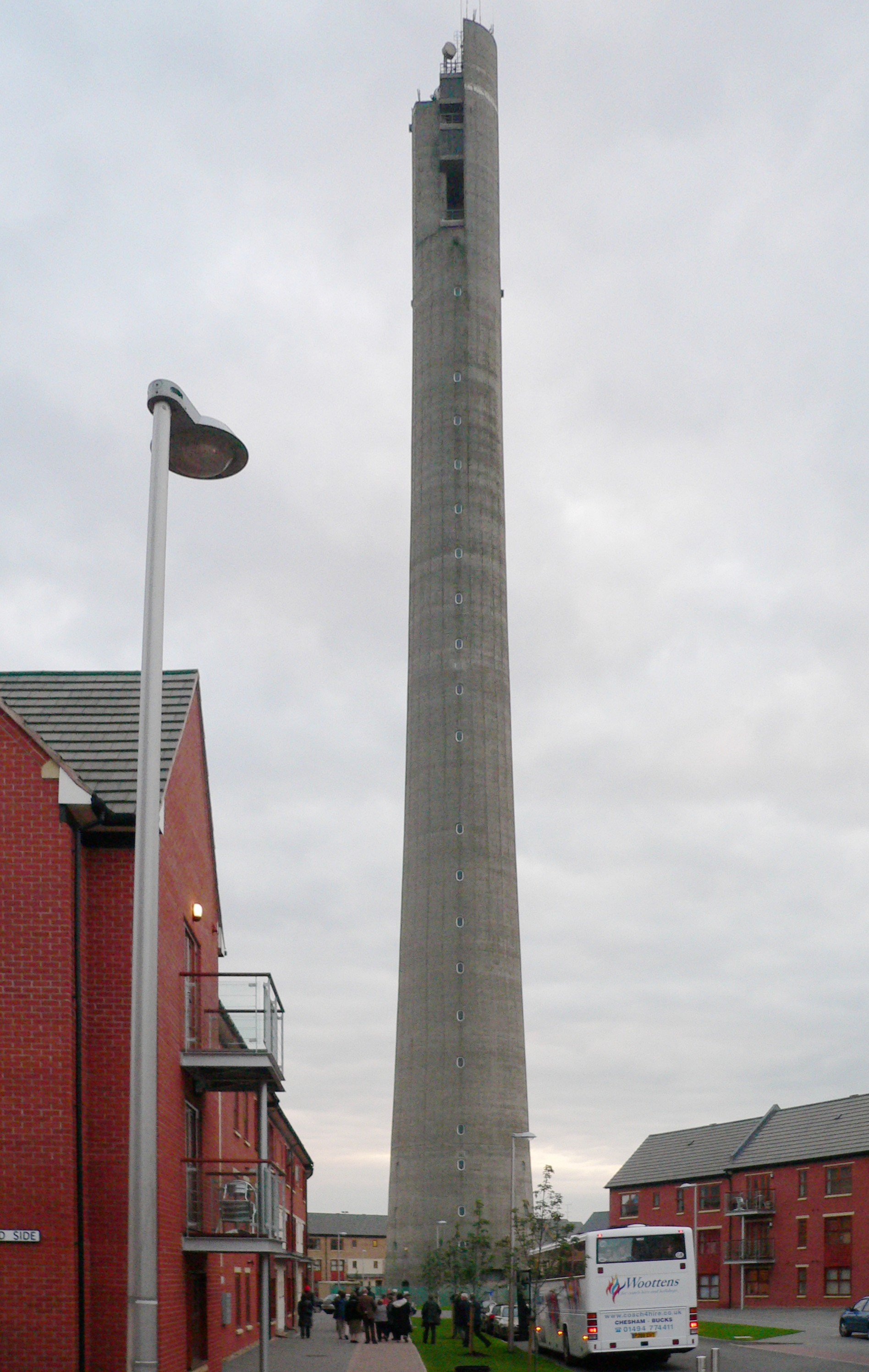 Express Lift Tower, Northampton, UK Photo taken by myself 22-10-2005 enhanced for brightness/contrast and to reduce wide angle effects early evening and dull day so not a bright photo